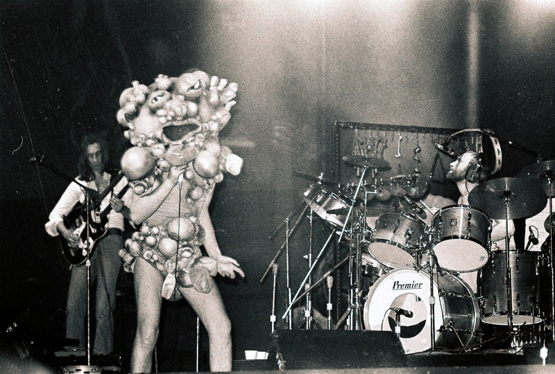 Genesis performing live at the Auditorium Theatre on 20 November 1974.